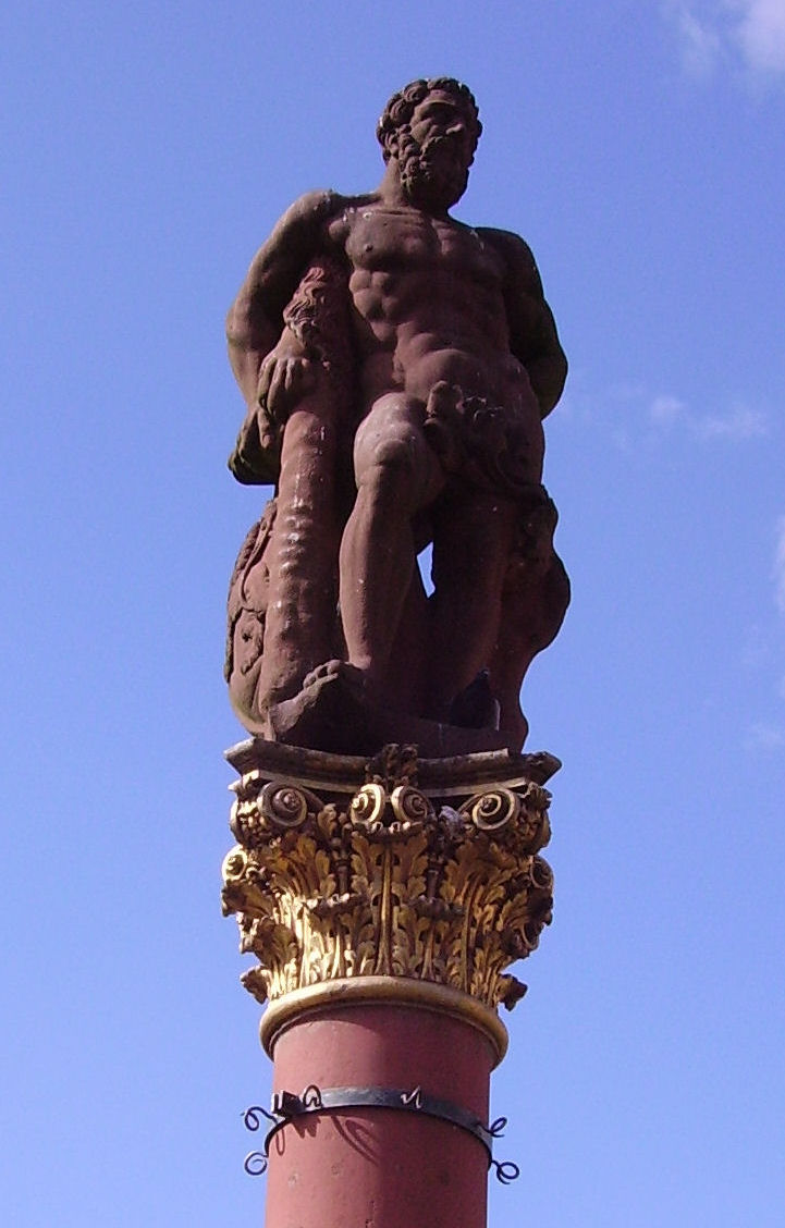 views of Heidelberg, Germany